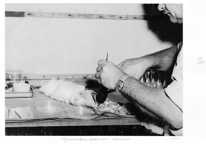 Myxomatosis experiment, Sherwood.